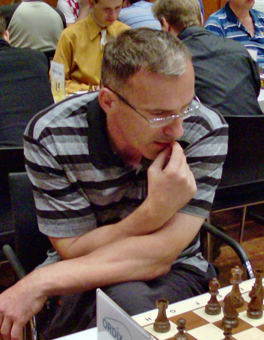 Ognjen Cvitan, chess grandmaster from Croatia